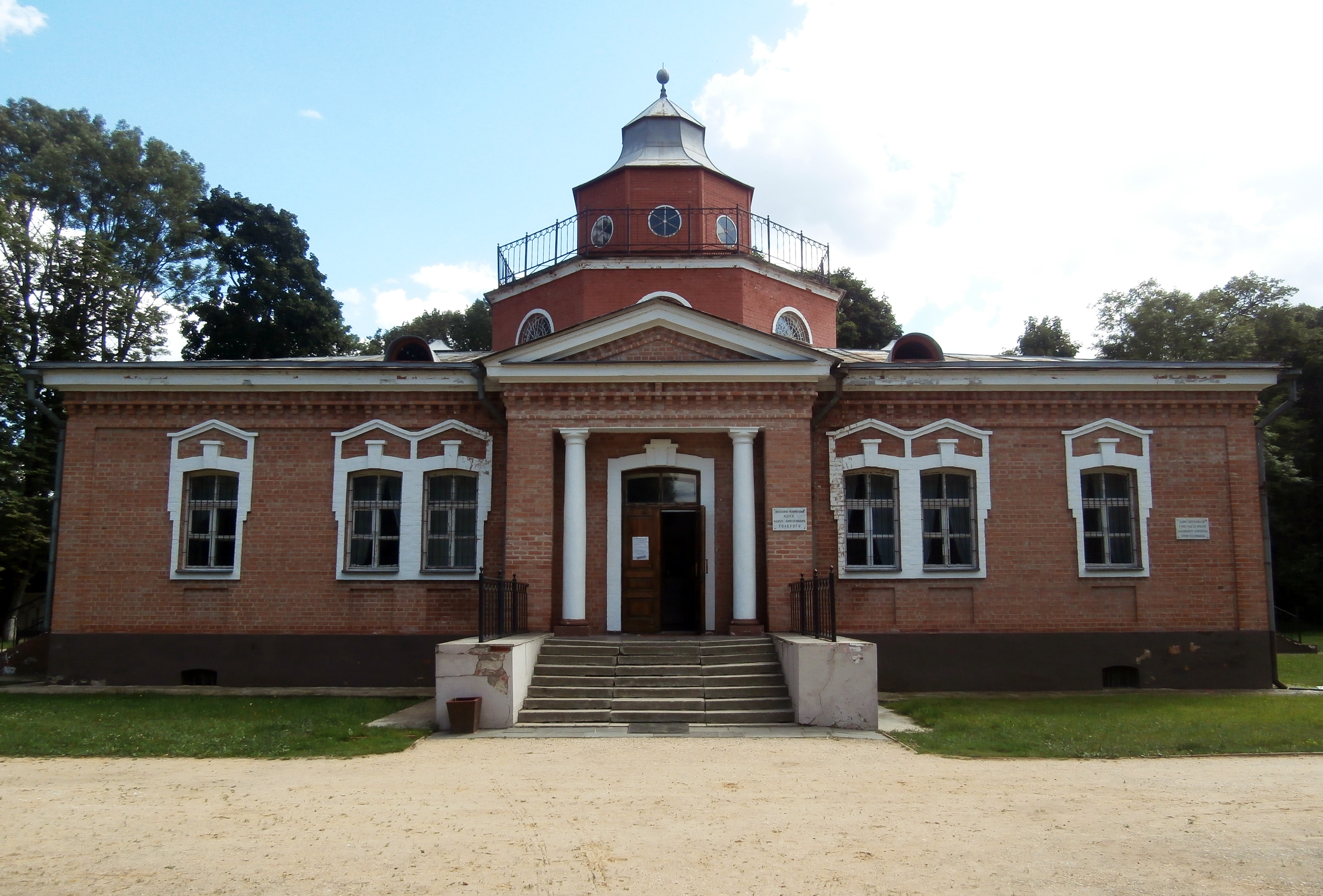 The facade of house of Aleksey Konstantinovich Tolstoy in village Krasnuy Rog.